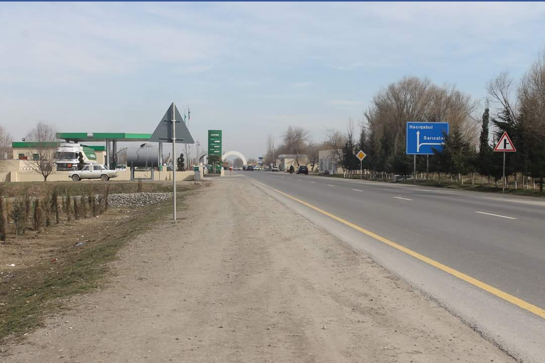 Qalaqayın settlement